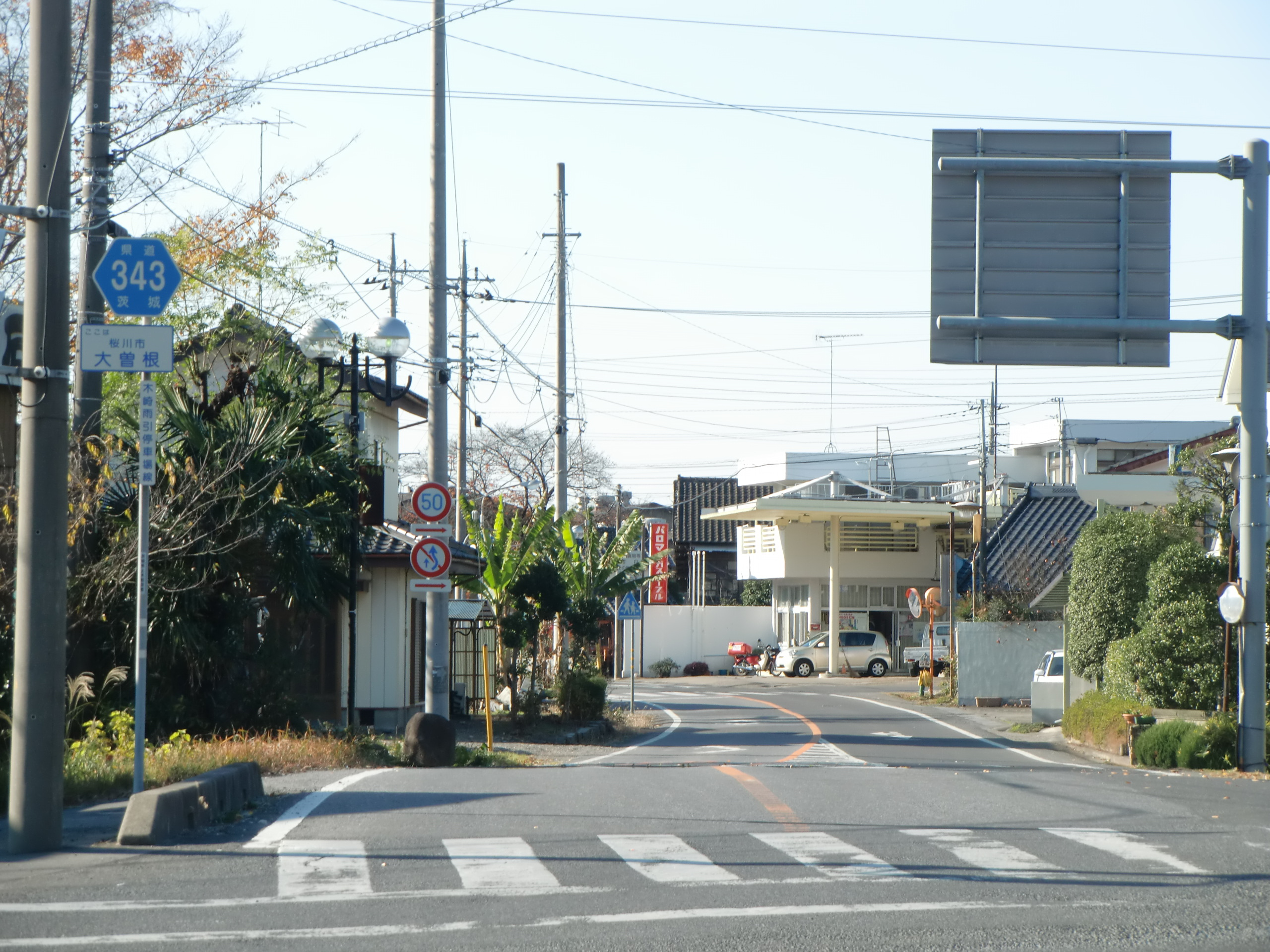 Ibaraki prefectual road 343 in Ohzone, Sakuragawa-city, JAPAN.